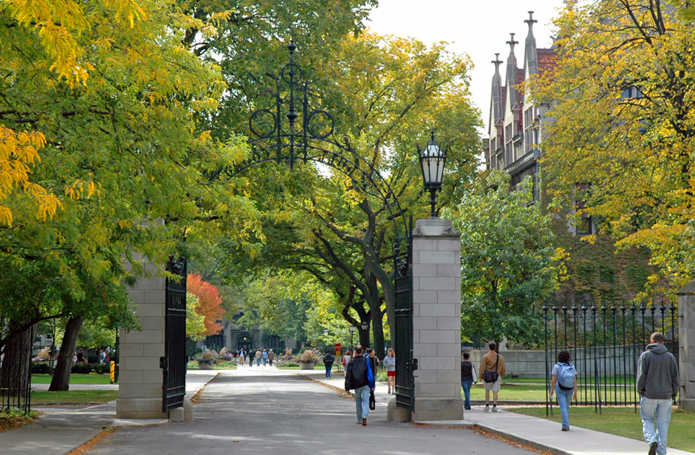 Gated entrance to the University of Chicago's main quadrangle in Chicago, Illinois, United States; *featured in the film When Harry Met Sally...